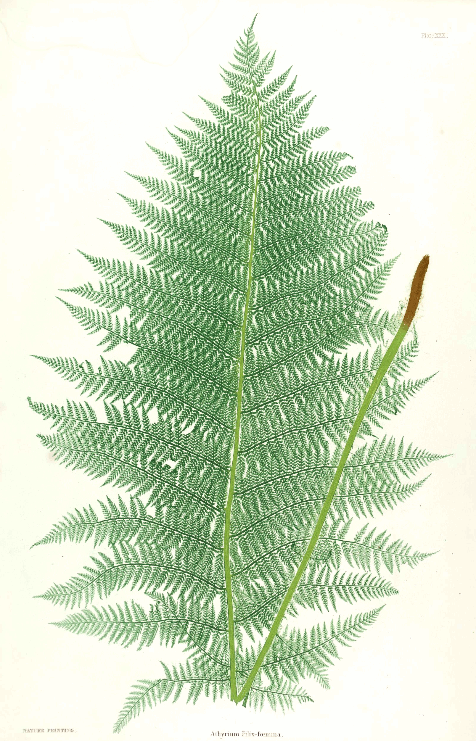 Plate from book